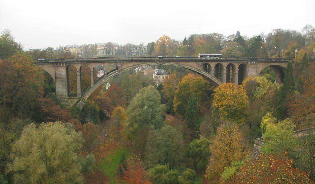 Luxembourg (city), Adolphe Bridge (east side)